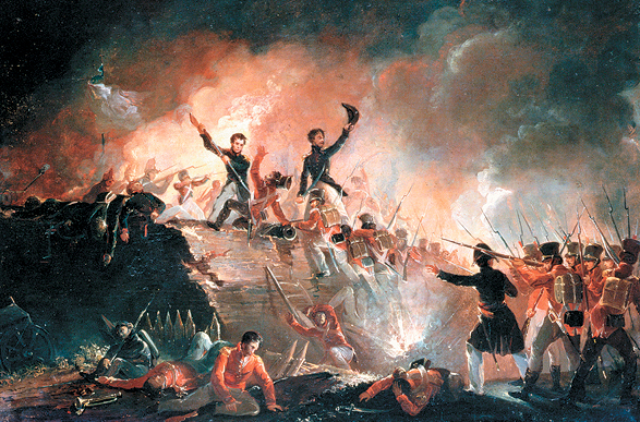 This Painting by E.C Watmough depicts the British storming the Northeast Bastion of Fort Erie, during their failed night assault on August 14, 1814.